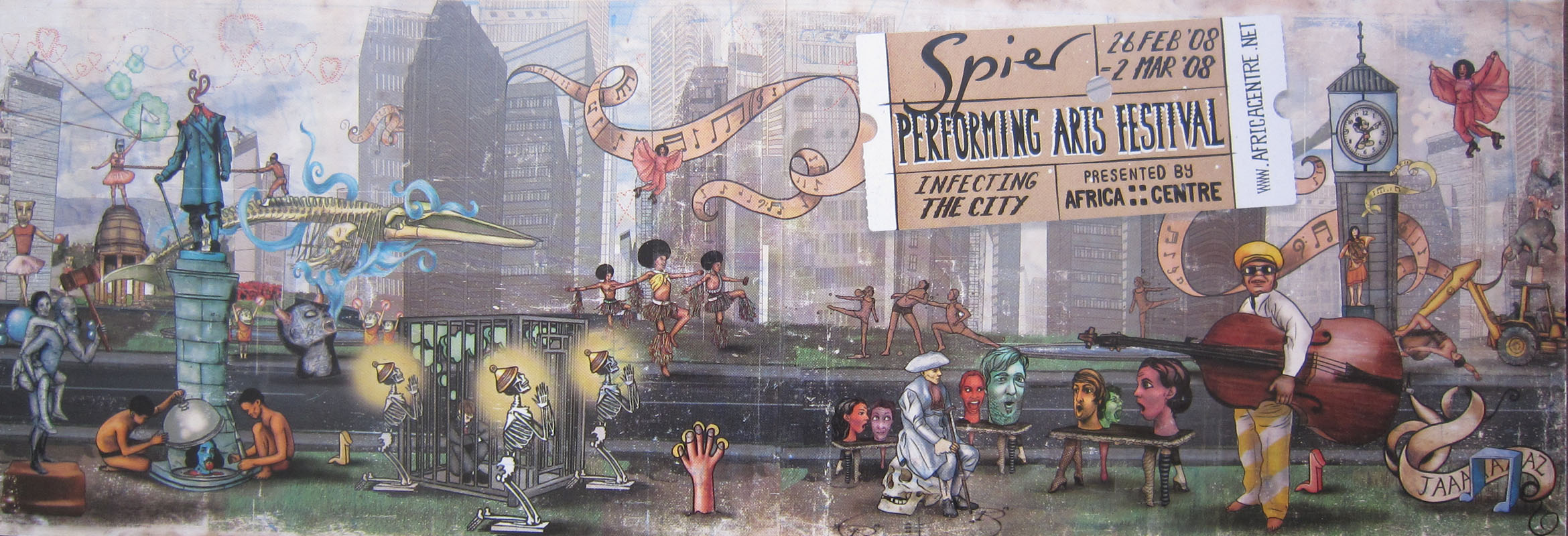 This was the design for the poster and front cover of the programme for the first Infecting the City festival in 2008.